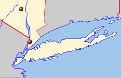 Location of the en:2009 New York City bomb plot.